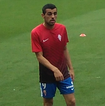 Carlos Castro García, Sporting de Gijón footballer (cropped from original photo, made by me).